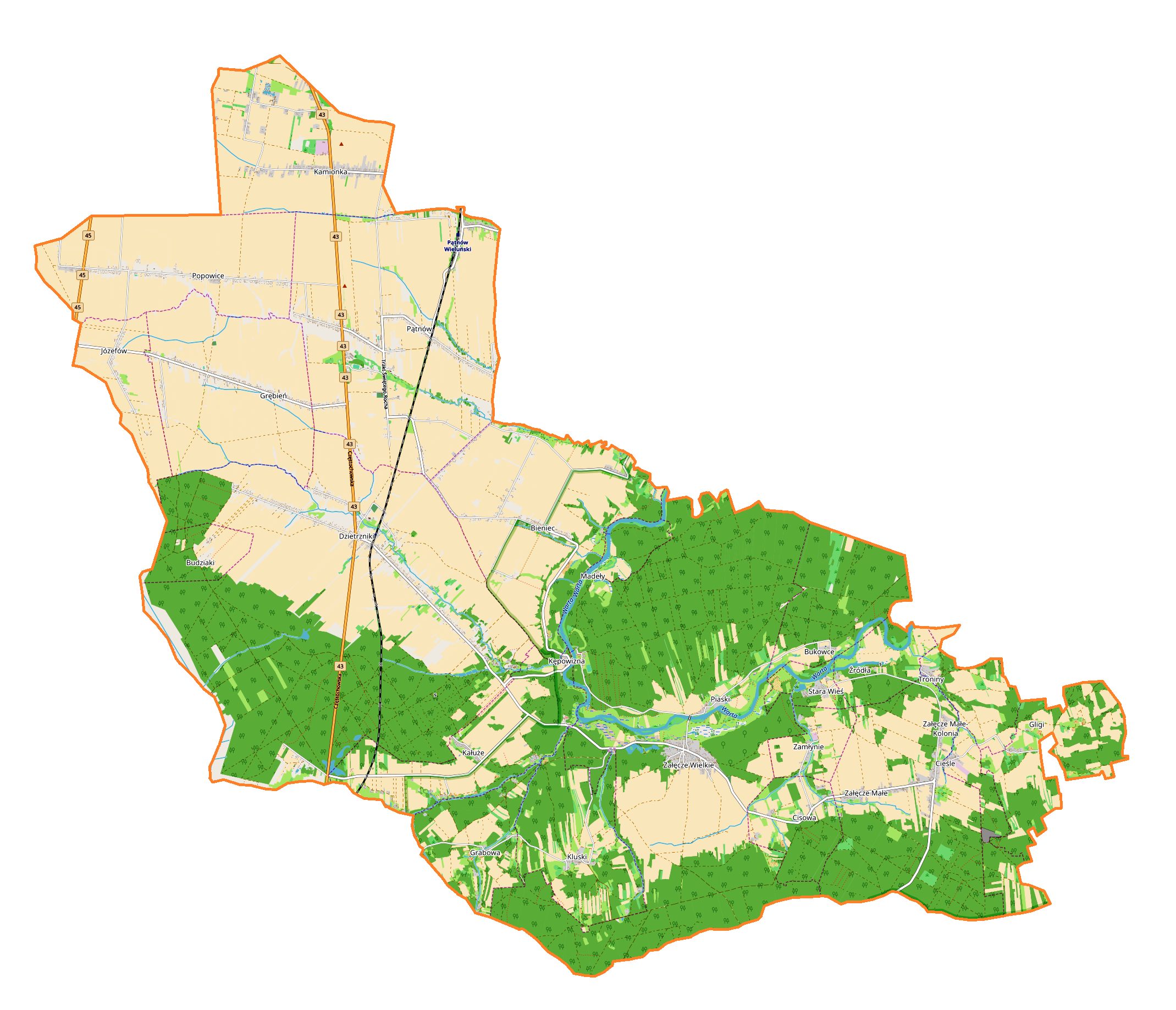 Location map